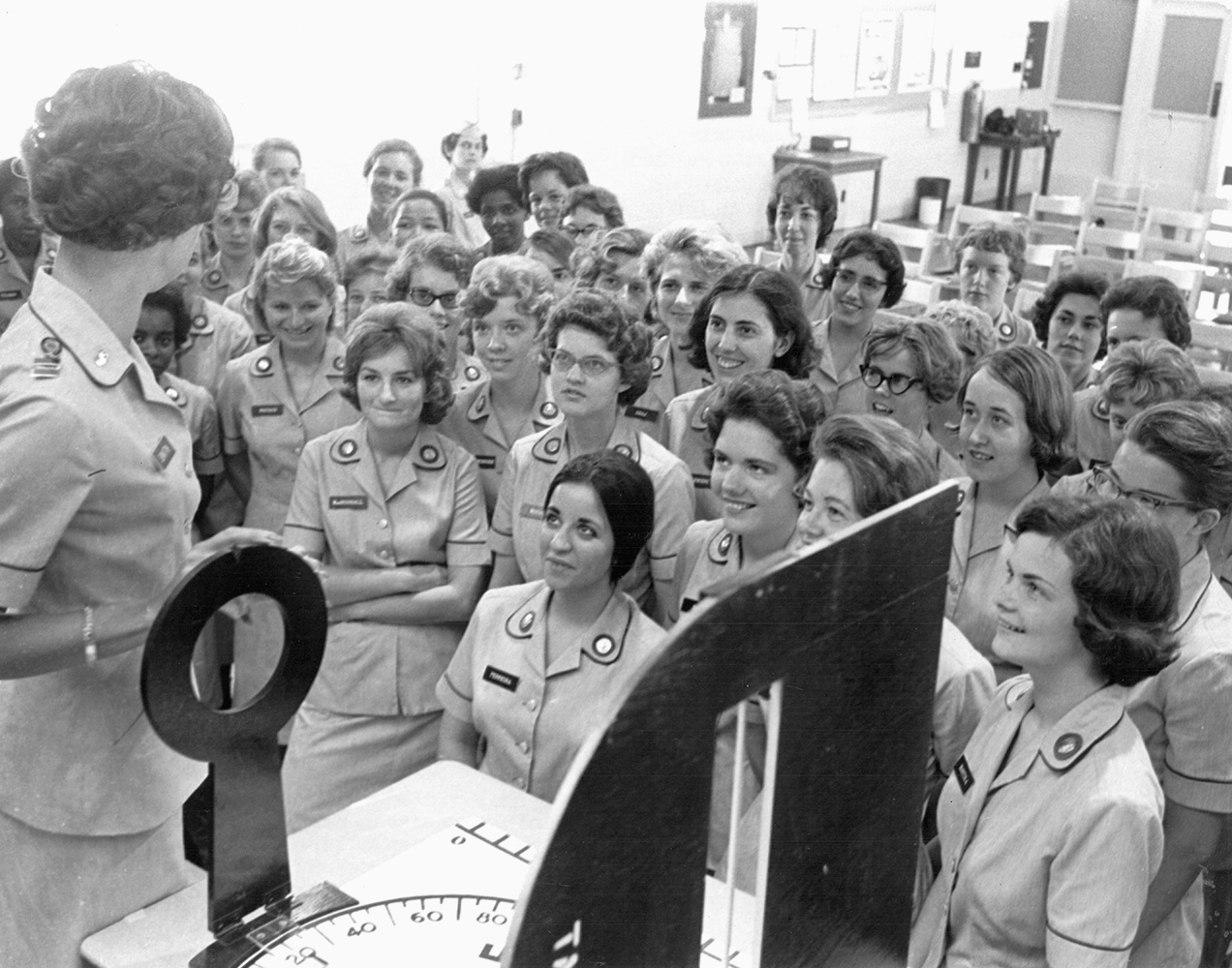 From the back of the photograph: FORT McCLELLAN, ALA. Capt. Ann Smith, an instructor at the U.S. Women' Army Corps School, instructs an eager group of college juniors in map reading. The 100 college women attending the four-week course receive a complete orientation on life as a WAC officer. 20 July 1964 Photo: Pfc John Full